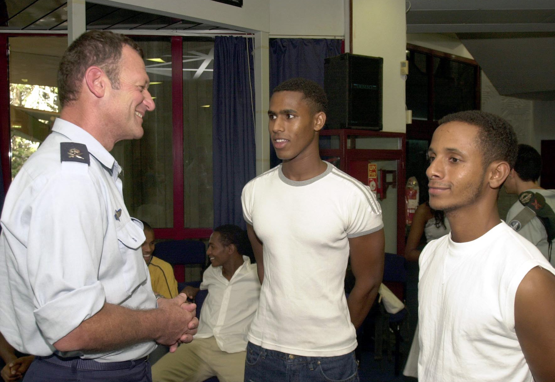 In a ceremony at the Technion University in Haifa, the Head of the Human Resources Branch of the IDF at the time, Maj. Gen. Gil Regev, gave a speech at the opening of the preparatory program comprised of 41 students from the Israeli Ethiopian community. Maj. Gen. Regev noted that the point of the program is for the youths to develop their abilities within the IDF and by extension Israeli society. At the end of the program the students will be eligible for college degrees within the academic degree program of the IDF.